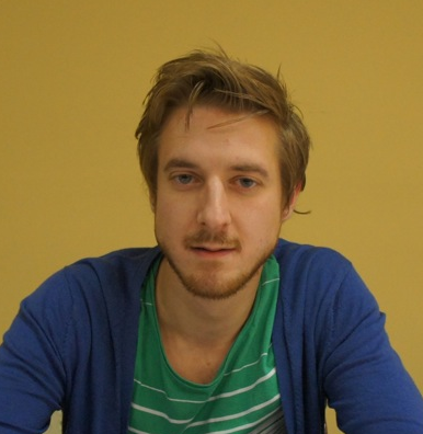 English Actor of "Doctor Who" fame